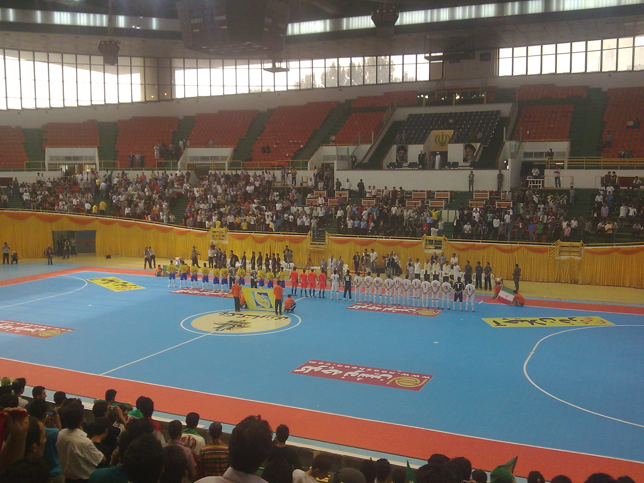 Iran played in friendly match against Brazil. (Azadi Sport Complex)